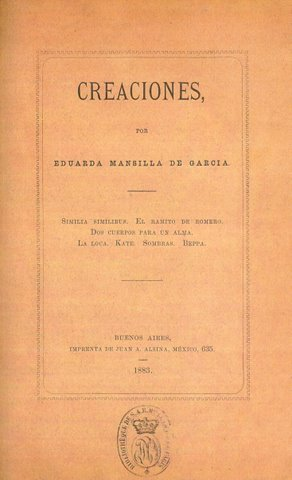 Book cover of Creaciones, written by Eduarda Mansilla. Published by Imprenta de Juan Alsina in Buenos Aires.